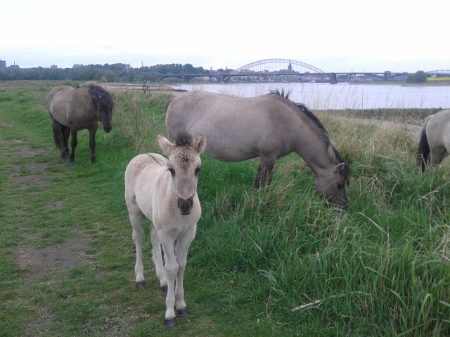 Konik horses in the Ooijpolder